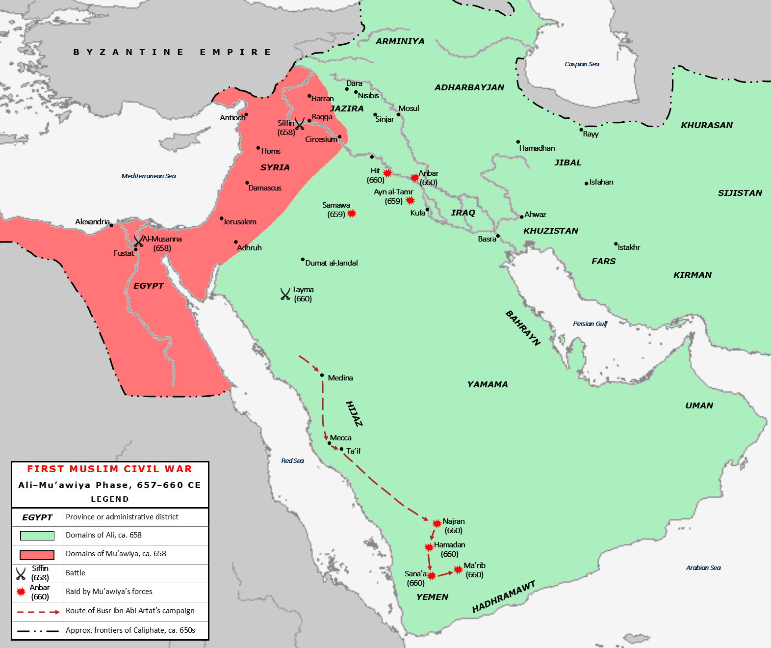 Map of the conflict between Caliph Ali (r. 656-661) and Governor of Syria Mu'awiya ibn Abi Sufyan during the First Muslim Civil War. The area shaded in green represents the territories of the Caliphate under Ali's control following the capture of Egypt by Mu'awiya's ally and deputy Amr ibn al-As in 658; the area in shaded in pink represents Mu'awiya's domains. Battles, raids by Mu'awiya's lieutenants and the military expedition route of Mu'awiya's lieutenant Busr ibn Abi Artat are all indicated. The frontiers of the Caliphate are approximate. Sources: Madelung, Wilferd (1997). The Succession to Muhammad: A Study of the Early Caliphate. Cambridge: Cambridge University Press. ISBN 0-521-56181-7, pages 184–310.